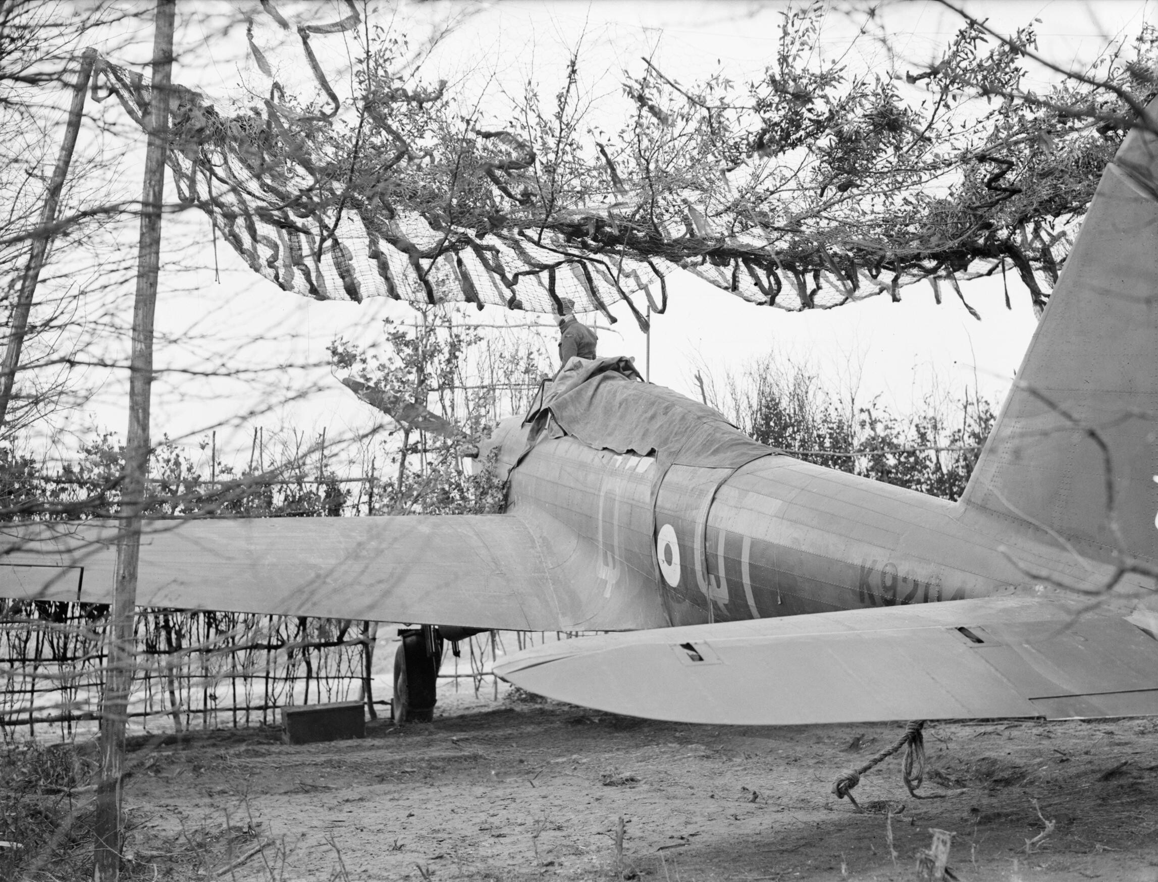 Royal Air Force- France, 1939-1940 Fairey Battle, K9204 'QT-Q', of No. 142 Squadron RAF, in a camouflaged 'hide' at Berry-au-Bac. K9204 survived the Battle of France, eventually joining the RCAF in 1941 as a training aircraft (2100).